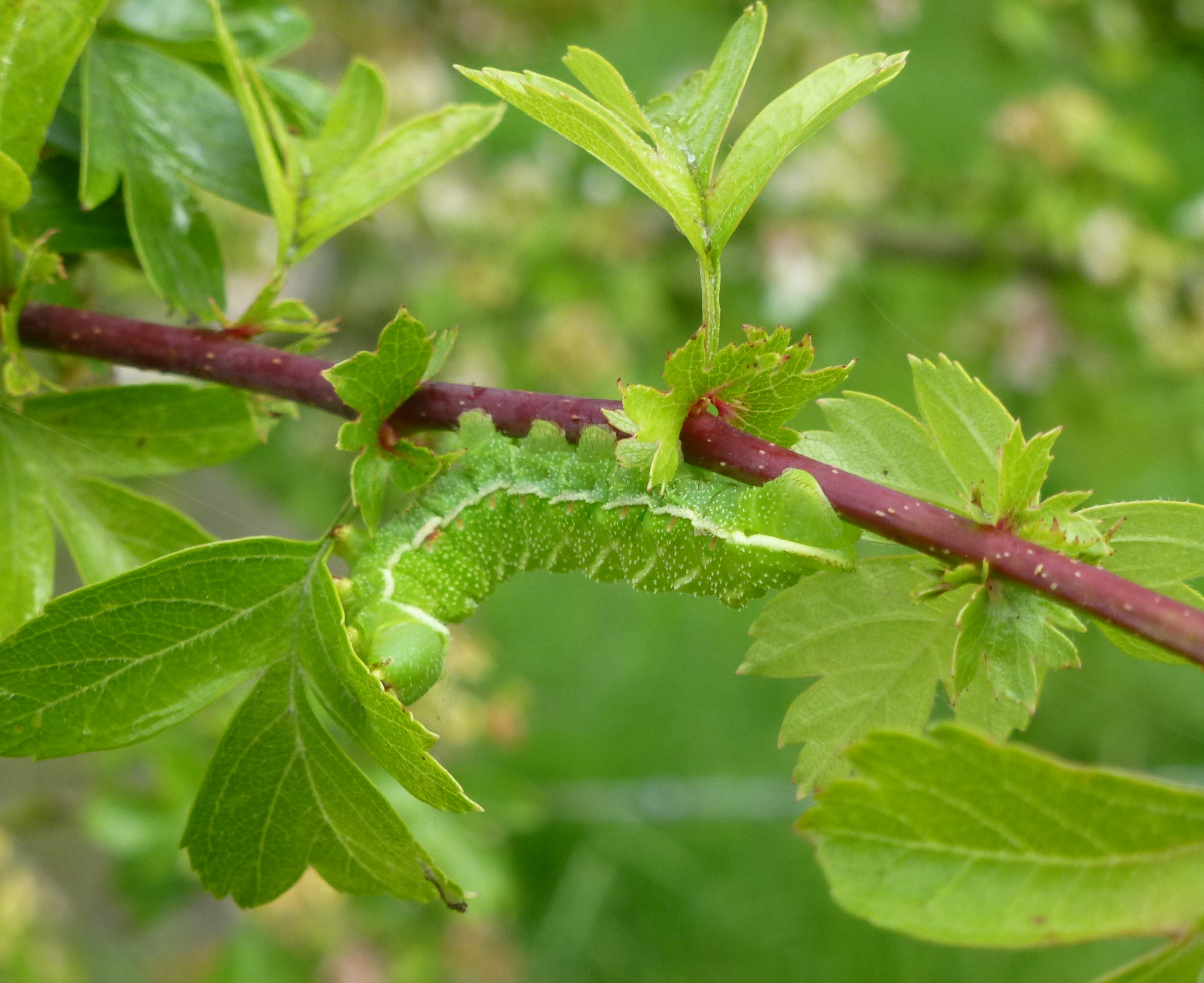 Aglia tau caterpillar placed by hand in its reverse orientation moved to its preferred orientation (upside down), Fife, Scotland, clear sky, end of Spring.